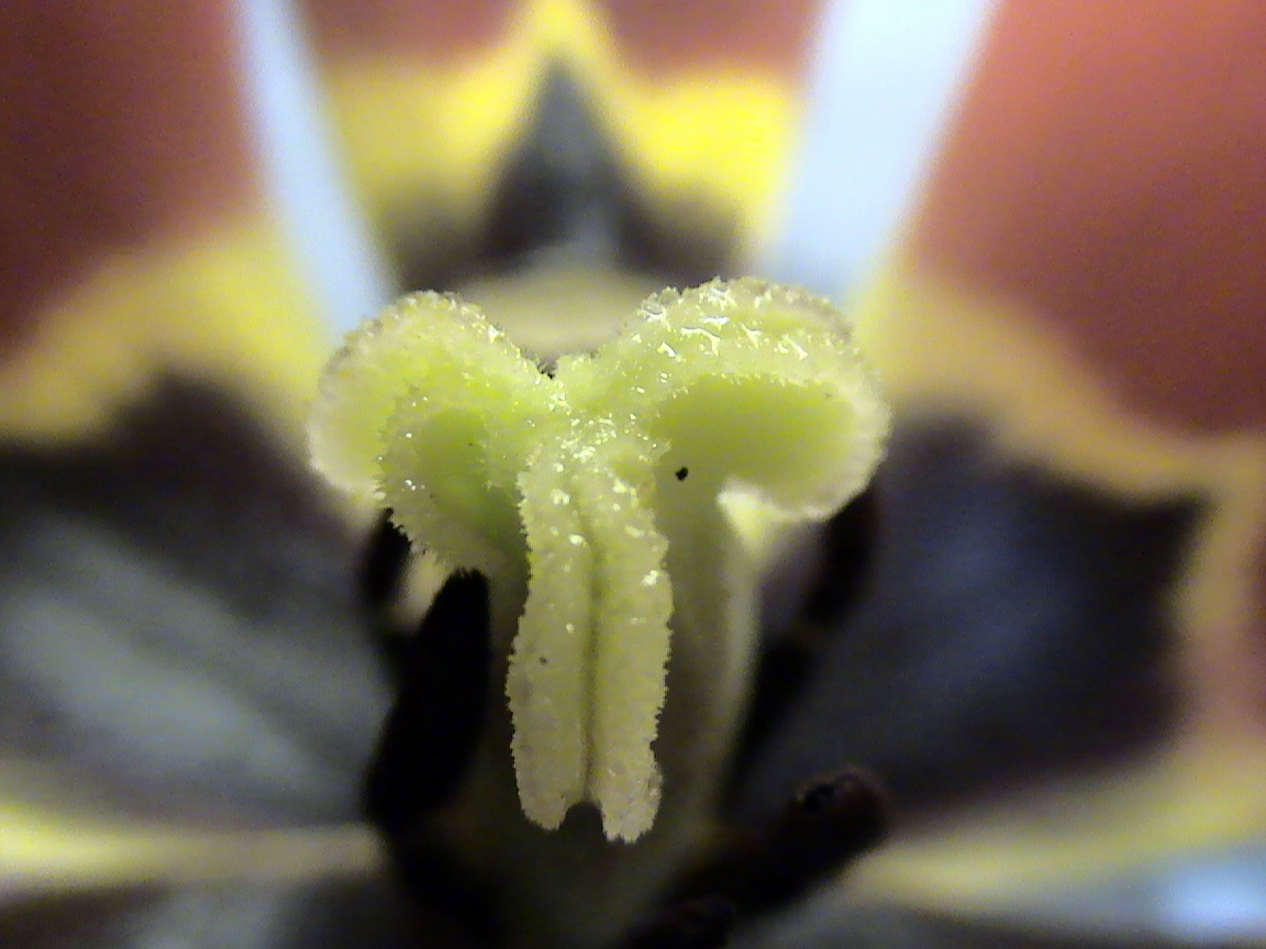 Stigma of Tulip